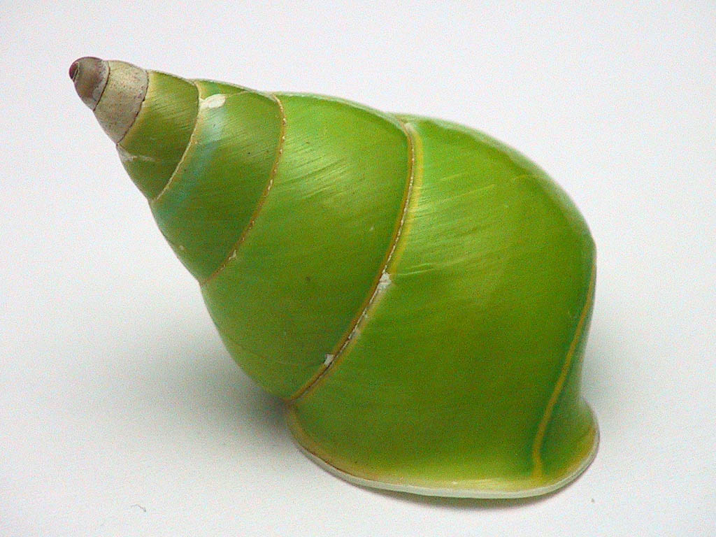 Lateral view of the shell of Papustyla pulcherrima, synonym: Papuina pulcherrima.